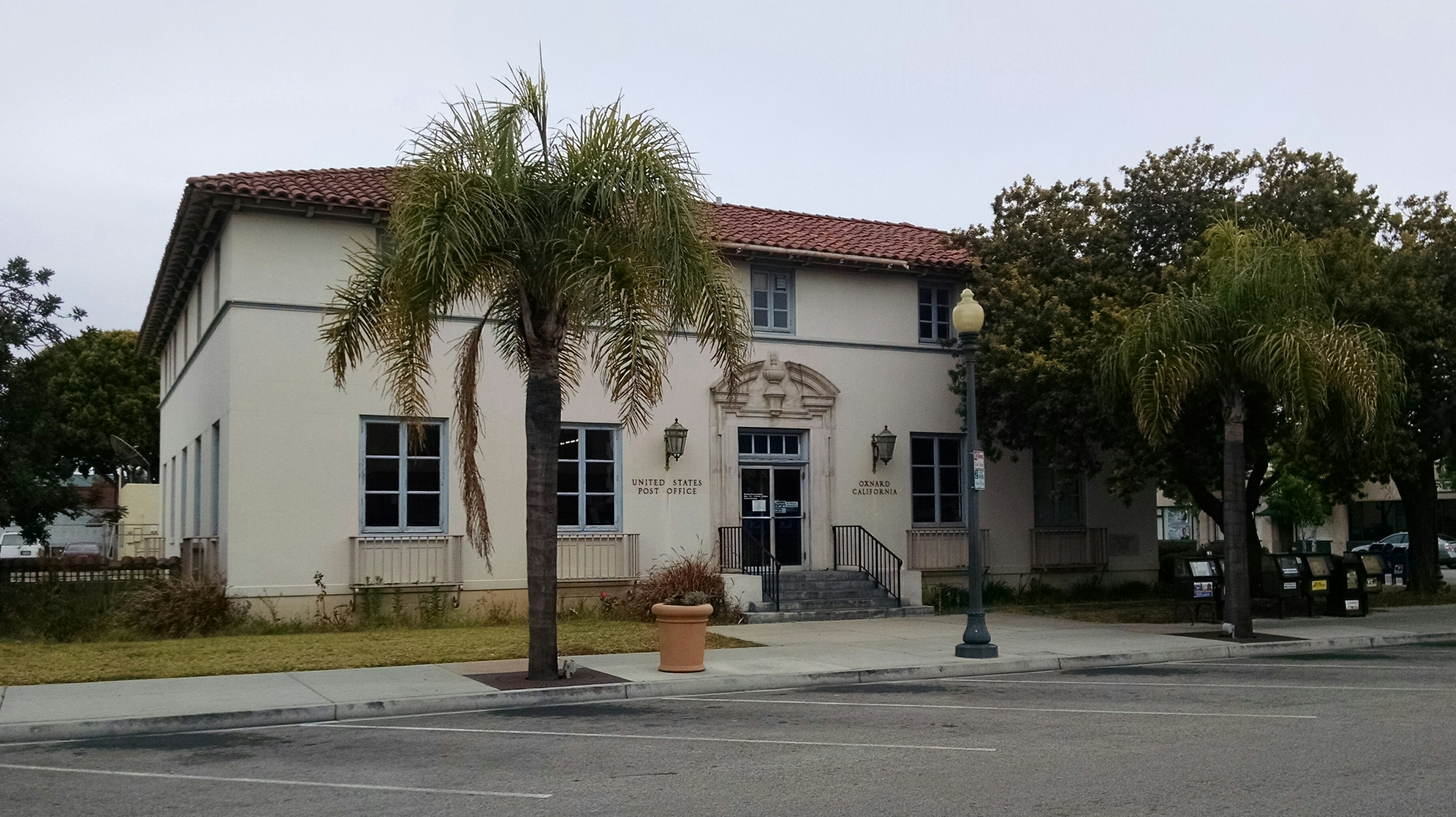 350 S. A Street, downtown Oxnard